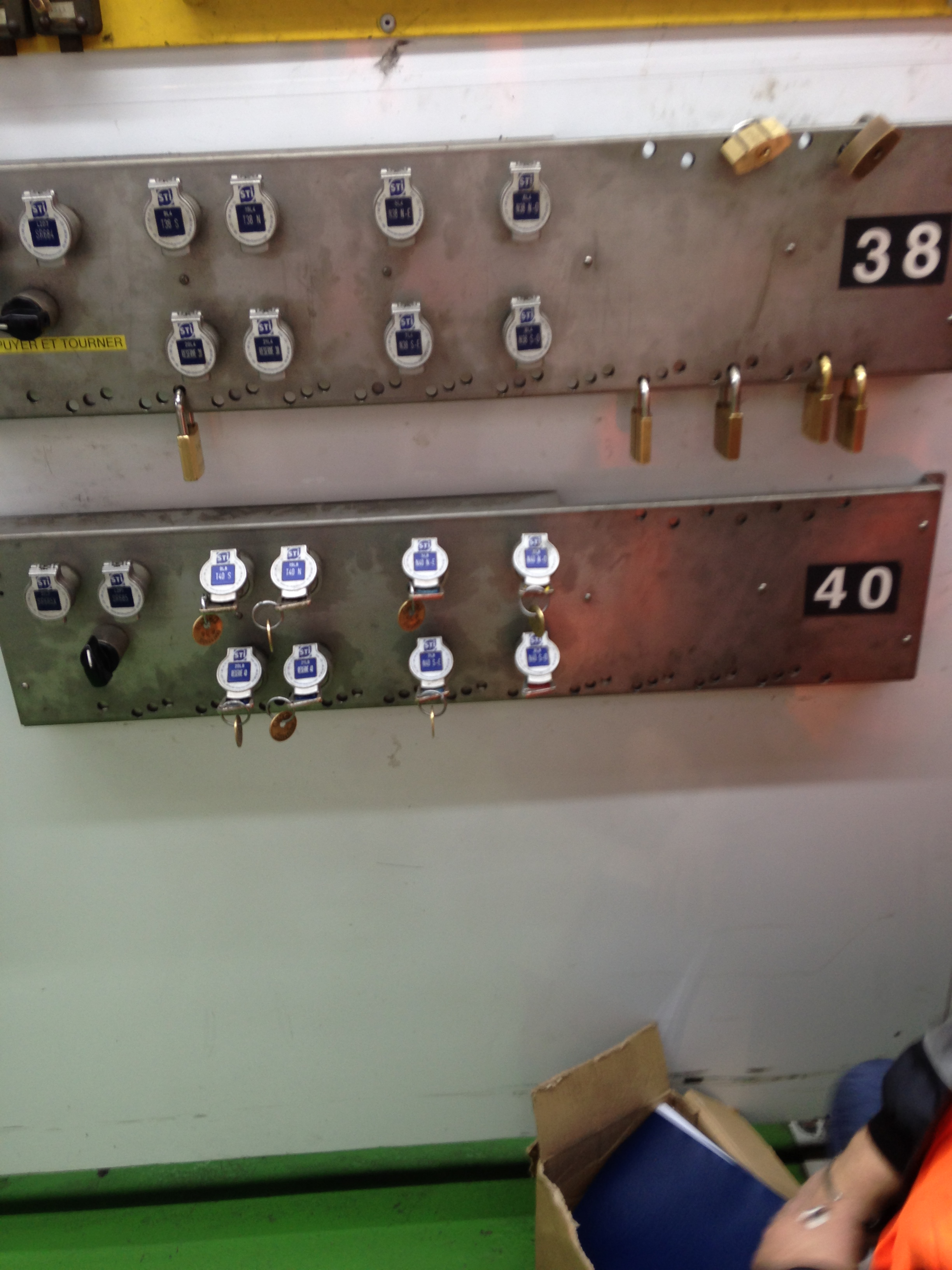 Central box for self consognation: mechanical